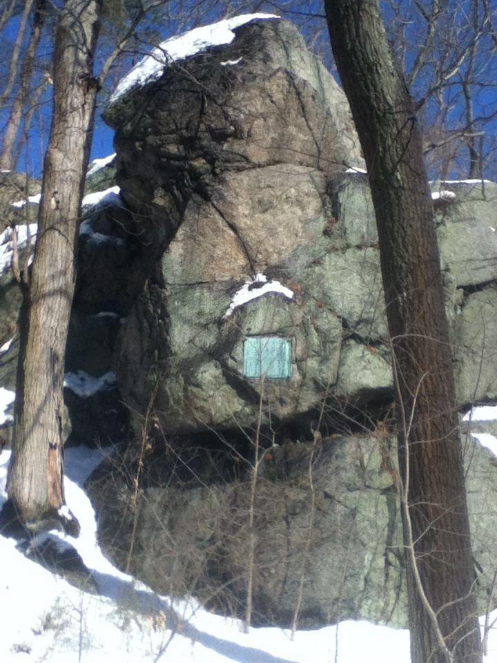 Photo of Appleton's Pulpit in Saugus, Massachusetts